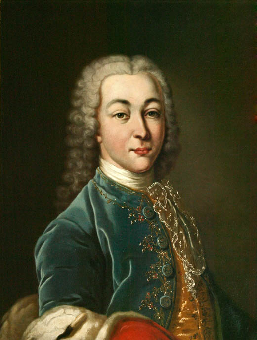 Portrait of the Poet Prince Antiokh Kantemir (1708-1744)